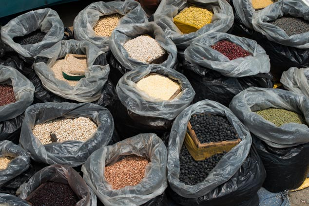 Japgok (pulses and millets)